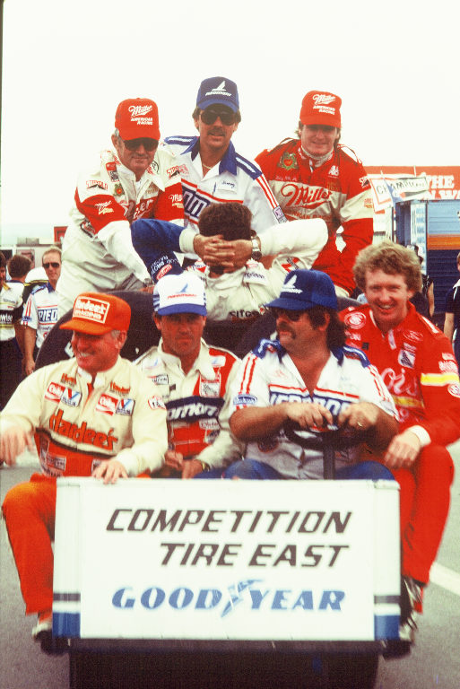 NASCAR drivers at Pocono 1985. (Left-Right) Top row: Bobby Allison, ?, Bobby Hillin. Bottom Row: Cale Yarborough, Terry Labonte, ?. Photo by Ted Van Pelt